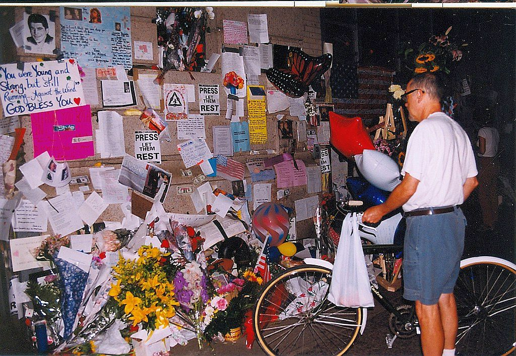 Mourners outside JFK jrs Loft apt after crash July 1999